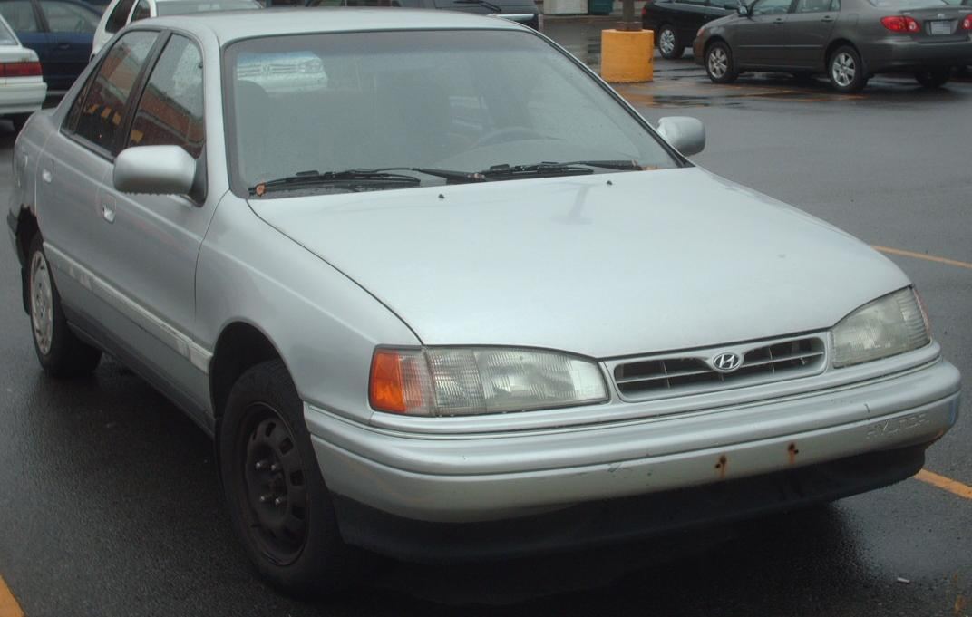 1993 Hyundai Elantra photographed in Montreal, Quebec, Canada.